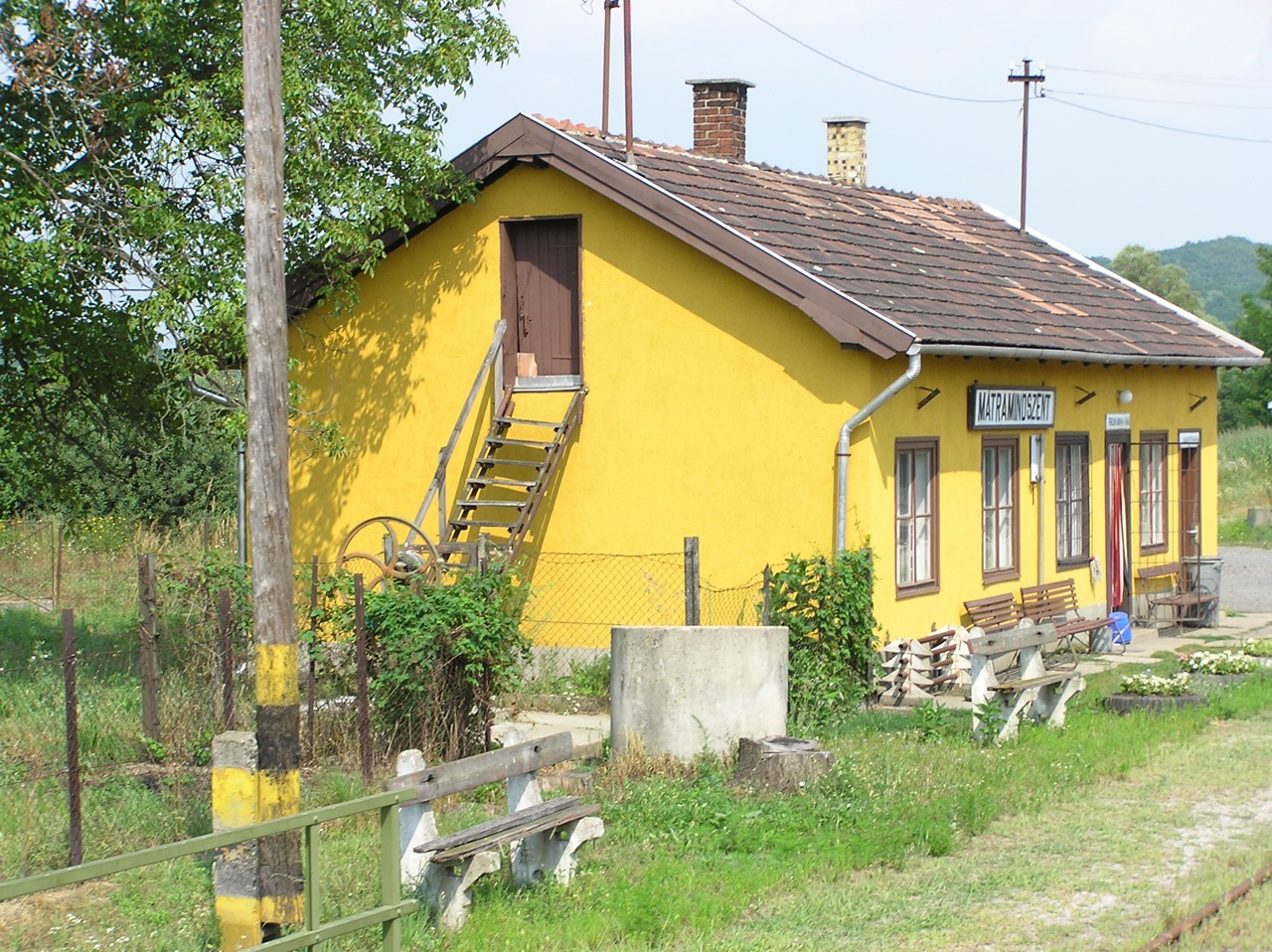 Railway station of Mátramindszent, Hungary